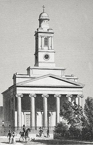 St Peter's Church, Eaton Square, Belgravia, London, England. Print published in 1827, the year the building was completed. From its founding St Peter's Church, Eaton Square, Pimlico was usually recorded as St Peter's, Pimlico, at least through 1878. St. Peter's Church, Eaton Square, Pimlico (Parish).